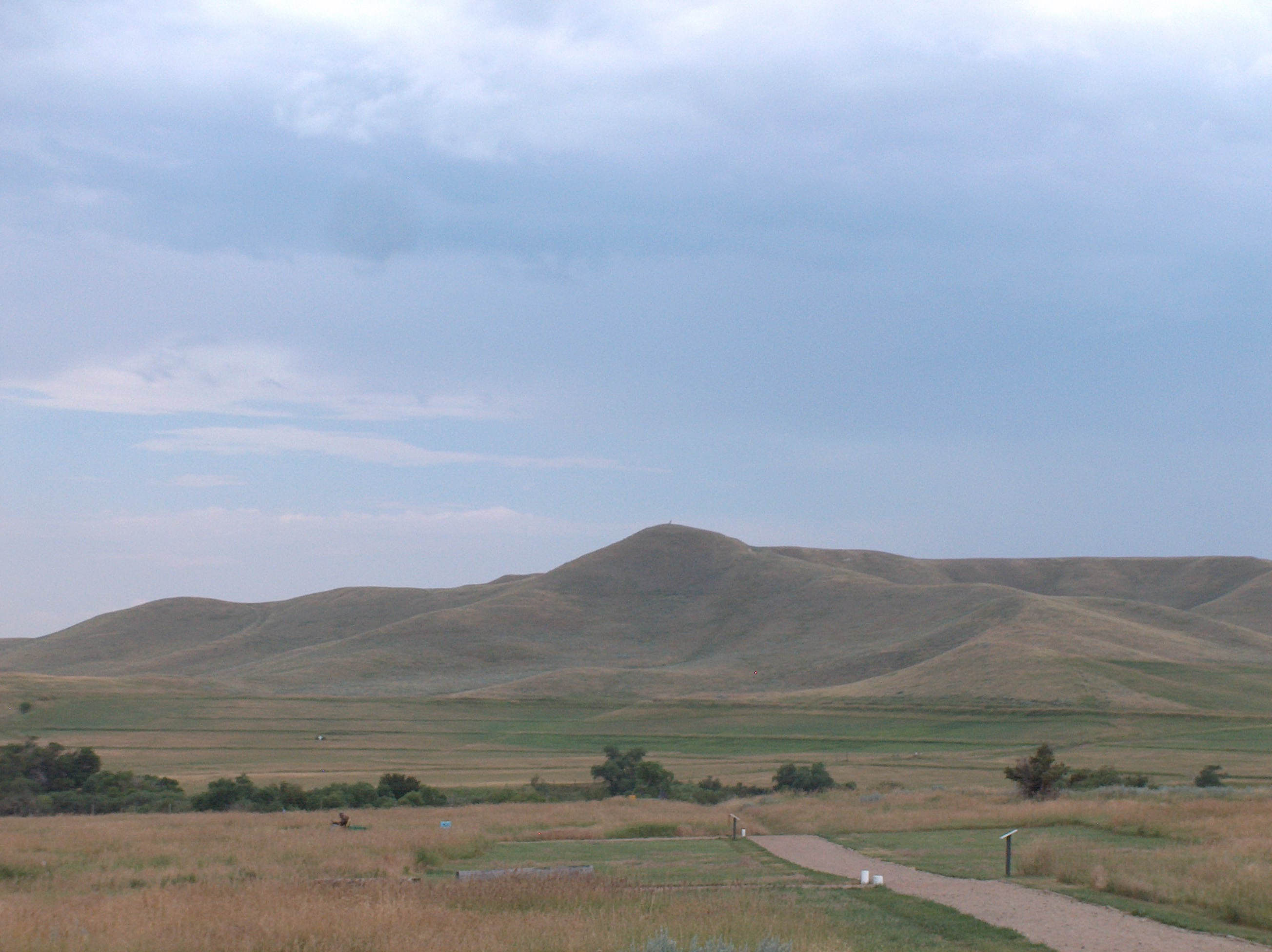 Pilot Knob(Pilot Hill), Fort Phil Kearney, between Buffalo and Sheridan, WY (photo: Gilles Coudert, 25 July 2007)